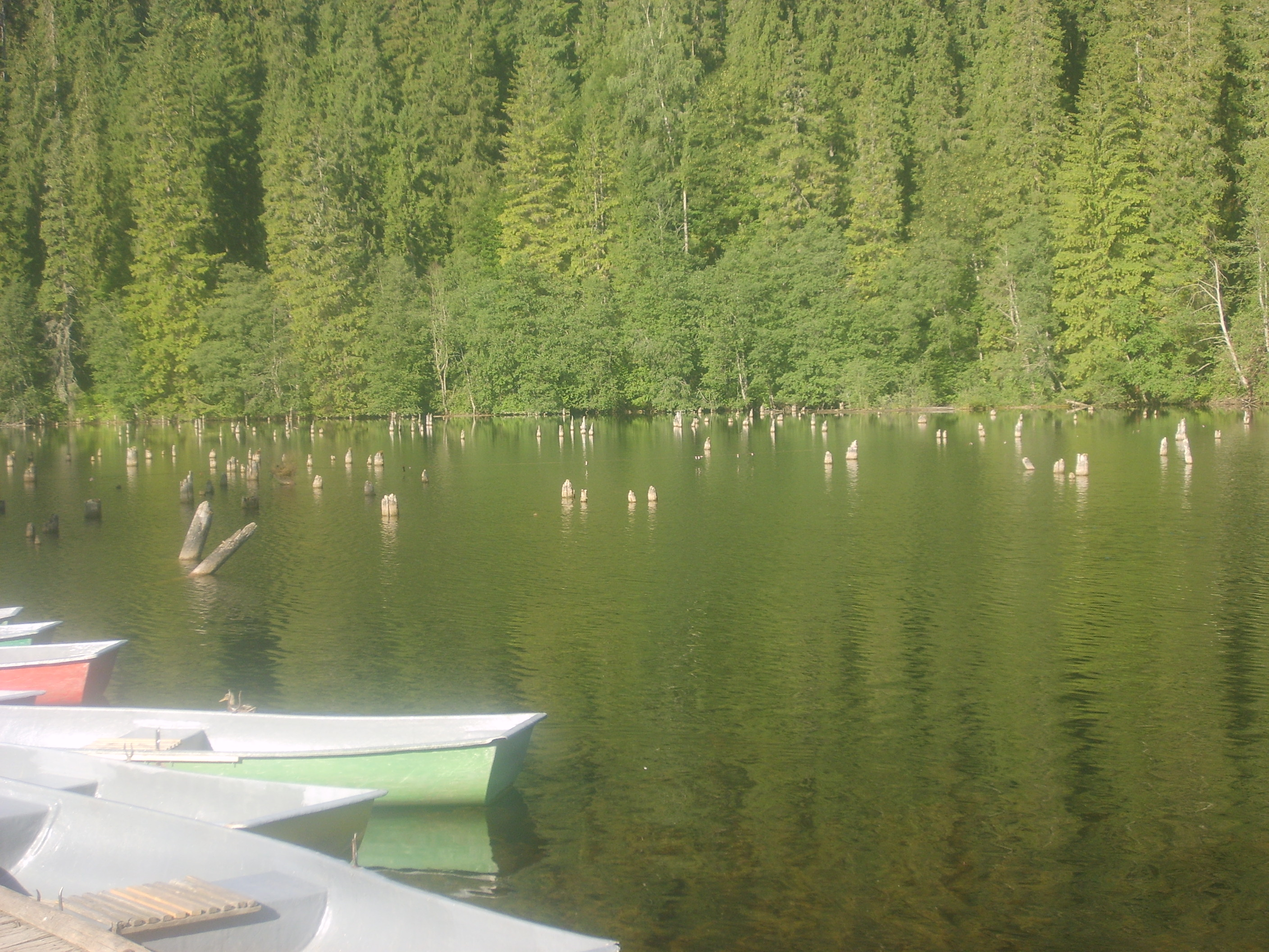 A view of Lacul Roşu, a lake in Romania (Hungarian name: Gyilkos-tó). It was formed in 1837 when a landslide closed a valley. Trees were flooded and their stems were preserved under water. In a very dry summer (like 2007), the tops of them can be visible in some places on the lake.